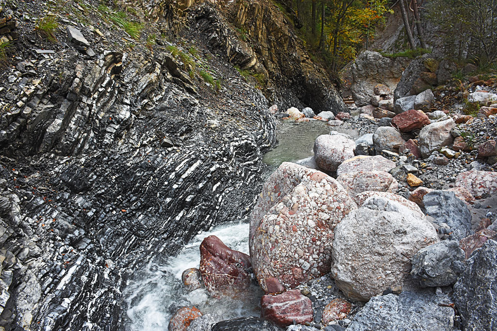 Bolulders of colorful breccia were transported along the creek from higher landslides on the mountain.